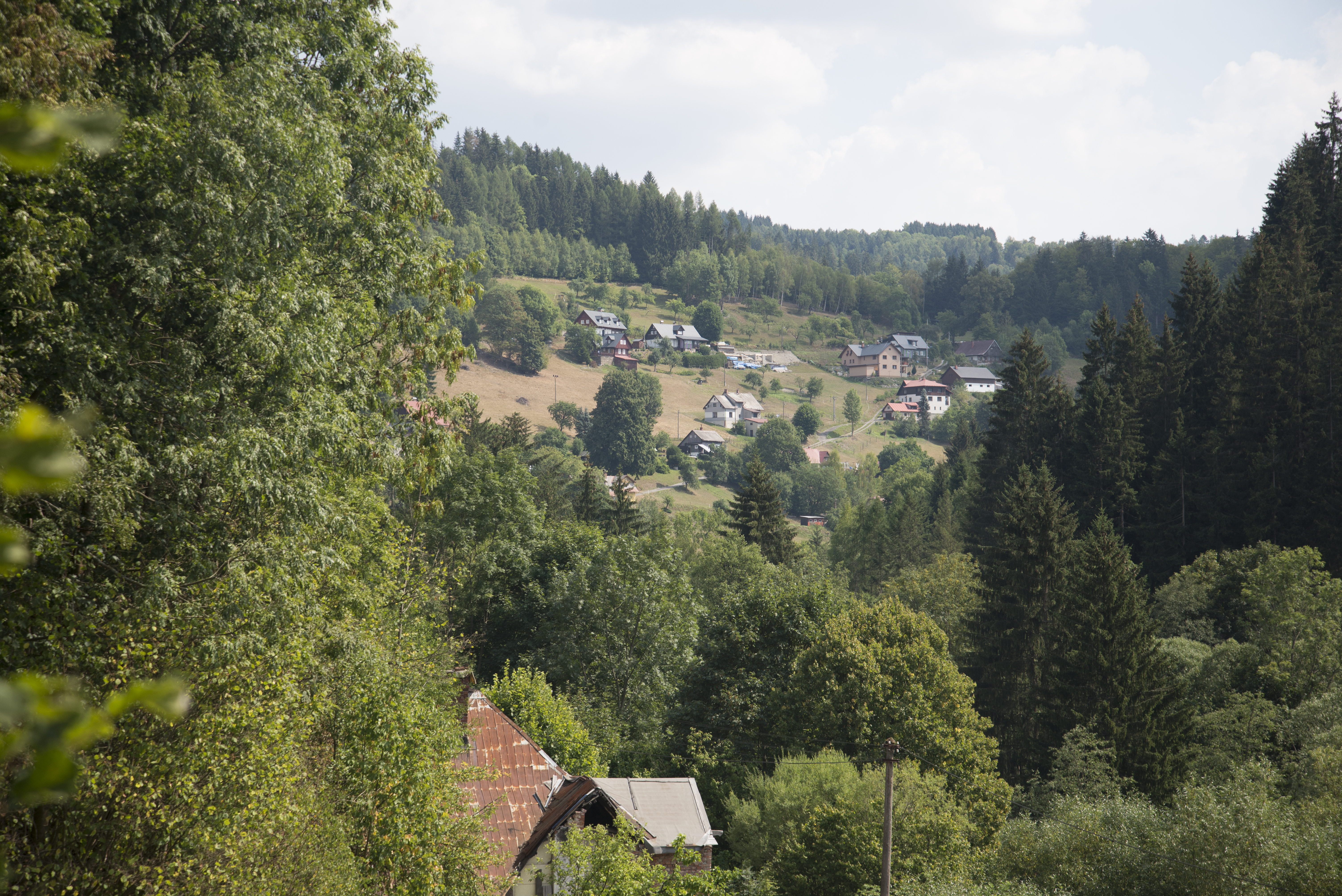 Dolní Dušnice, part of city Jablonec nad Jizerou, Semily District, Liberec Region